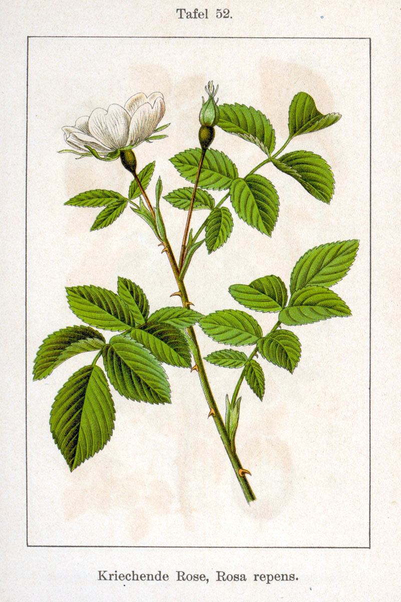 Rosa arvensis Huds., syn. Rosa repens Scop. Original Description Kriechende Rose, Rosa repens